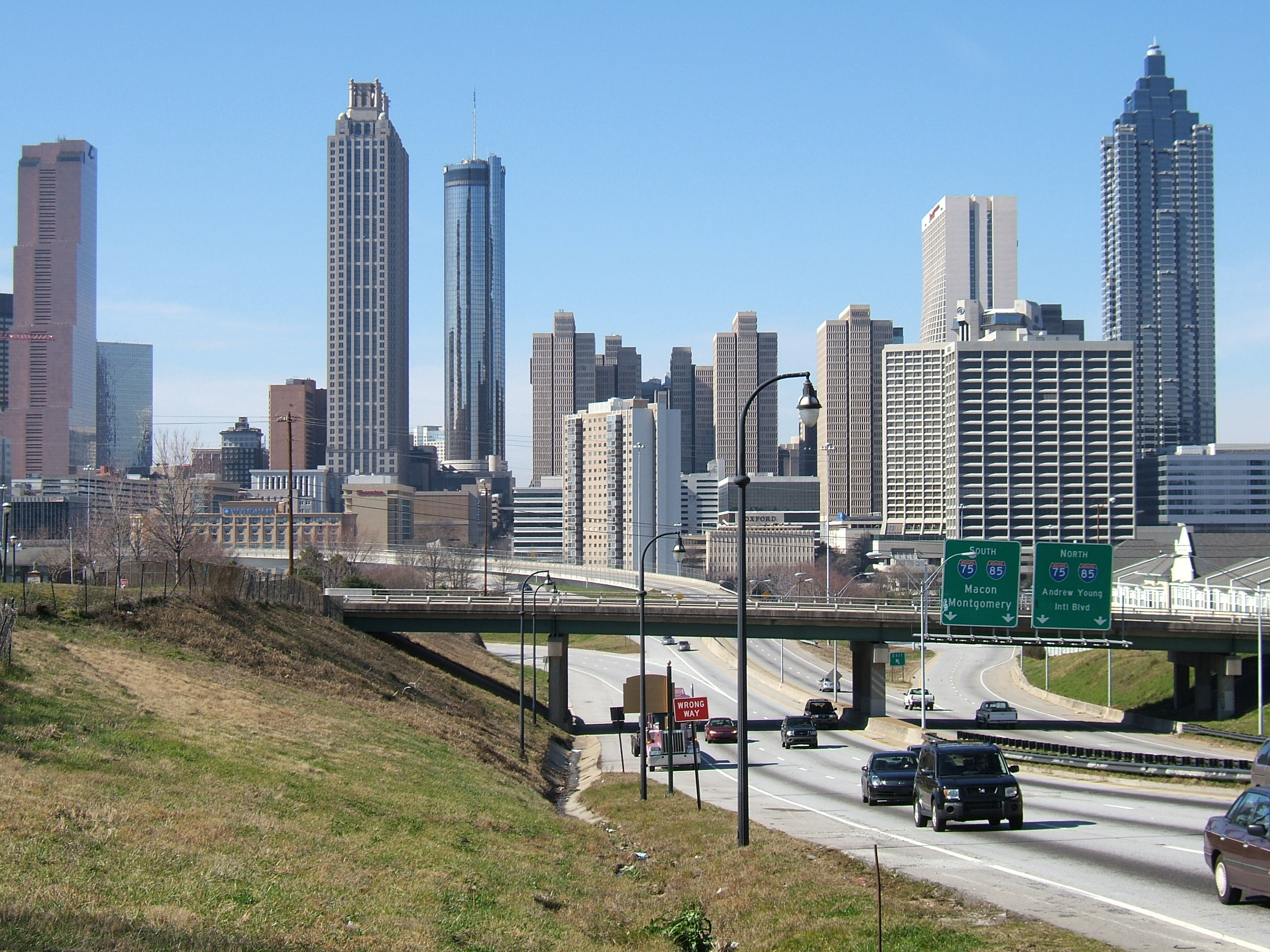 Atlanta, Georgia - Downtown Skyline.